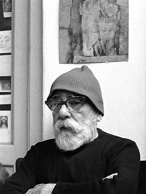 Portrait of Jan Zrzavý by Karel Kuklík, 1960s